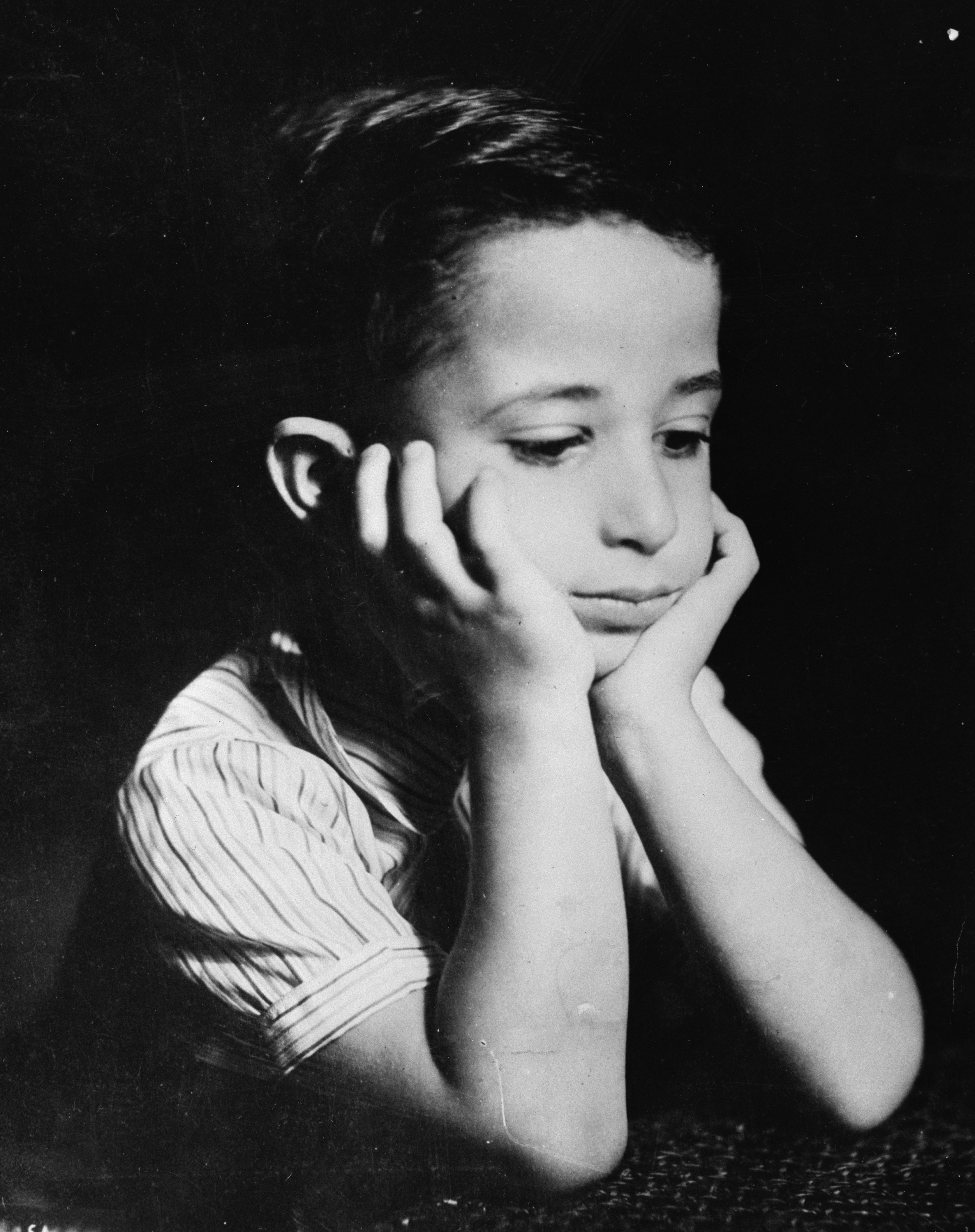 Public Domain. Suggested credit: Library of Congress via pingnews. Additional information from source: TITLE: Too young to realize he's a monarch is the world's youngest ruler, six year-old King Feisal of Iraq CALL NUMBER: LC-USW33- 019084-D [P&P] REPRODUCTION NUMBER: LC-USW33-019084-D (b&w film neg.) MEDIUM: 1 negative : safety ; 3 1/4 x 3 1/4 inches or smaller. CREATED/PUBLISHED: 1942? NOTES: Title and other information from caption card. Image source: Press Association, Inc., New York. Transfer; United States. Office of War Information. Overseas Picture Division. Washington Division; 1944. Film copy on SIS roll 0, frame 0. SUBJECTS: Iraq. FORMAT: Safety film negatives. PART OF: Farm Security Administration - Office of War Information Photograph Collection (Library of Congress) REPOSITORY: Library of Congress Prints and Photographs Division Washington, D.C. 20540 DIGITAL ID: (digital file from intermediary roll film) fsa 8e00861 CARD #: owi2001045687/PP